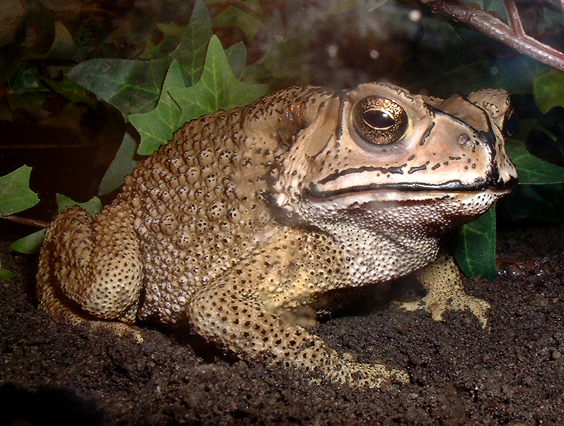 A 7+ year old female.